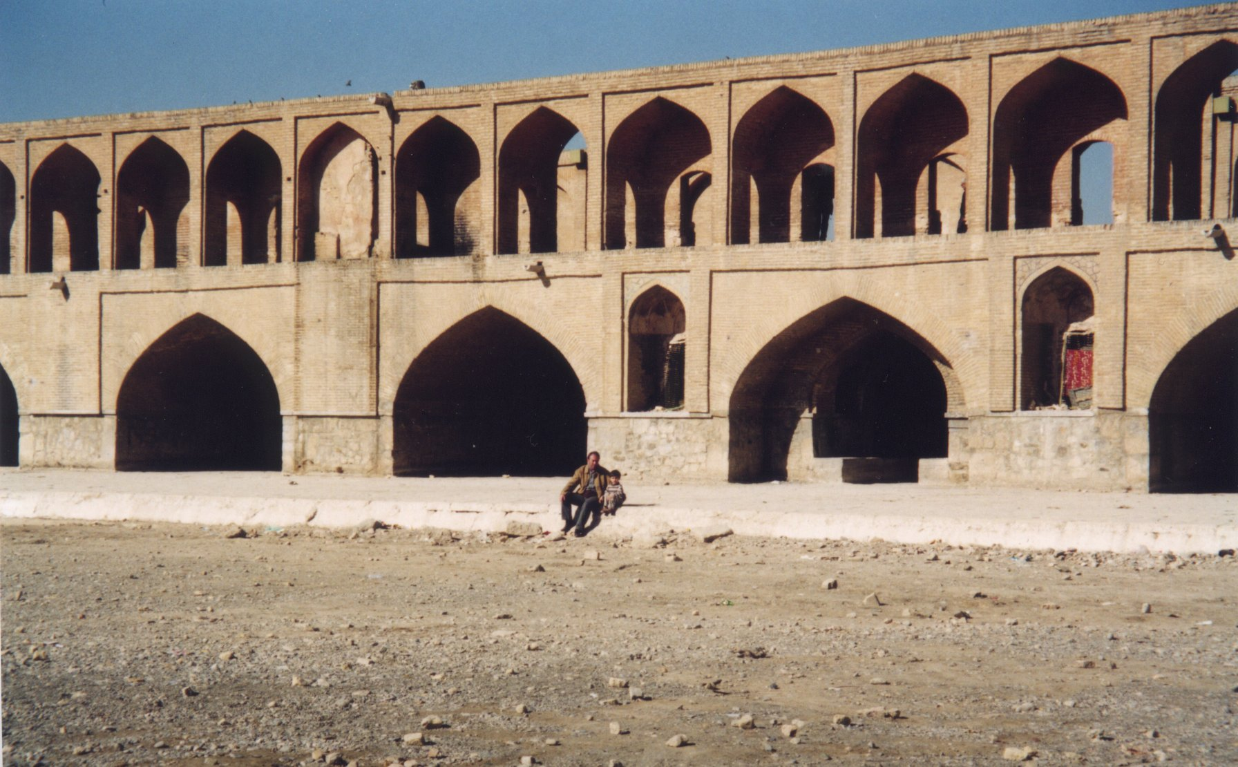 Zayandeh Rud (Isfahan River) without water in drought — at Si-o-se pol (bridge), Isfahan.